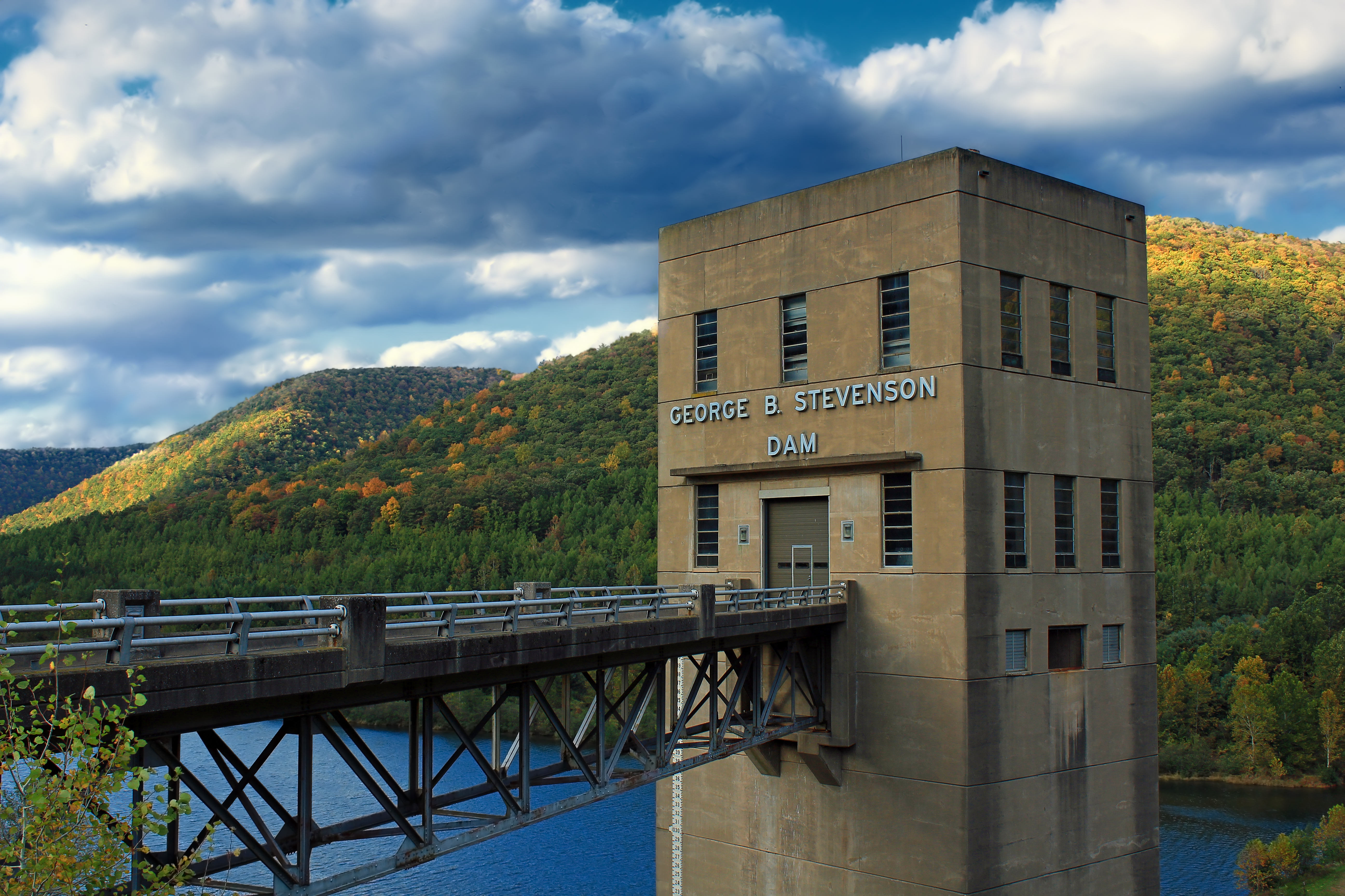 View from the George B. Stevenson Dam walkway, Sinnemahoning State Park, Cameron County.